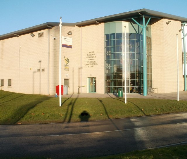 Entrance to Wales National Velodrome, Newport, The Velodrome is part of Newport International Sports Village, on the south side of Spytty Road.